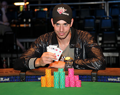 Nick Schulman wins his first WSOP bracelet in Event 23 - $10,000 World Championship No Limit Deuce to Seven Draw